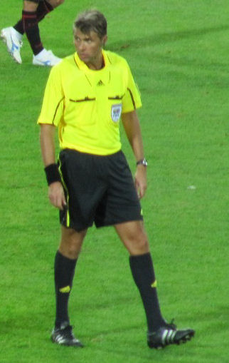 Roberto Rosetti during 2009 FIFA Club World Cup.